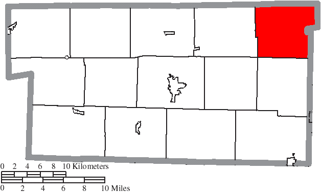 Map of the municipal and township boundaries of Holmes County, Ohio, United States, as of the 2000 census, with the location of Paint Township highlighted. Township borders are shown only in unincorporated areas in order to differentiate incorporated and unincorporated areas more clearly.